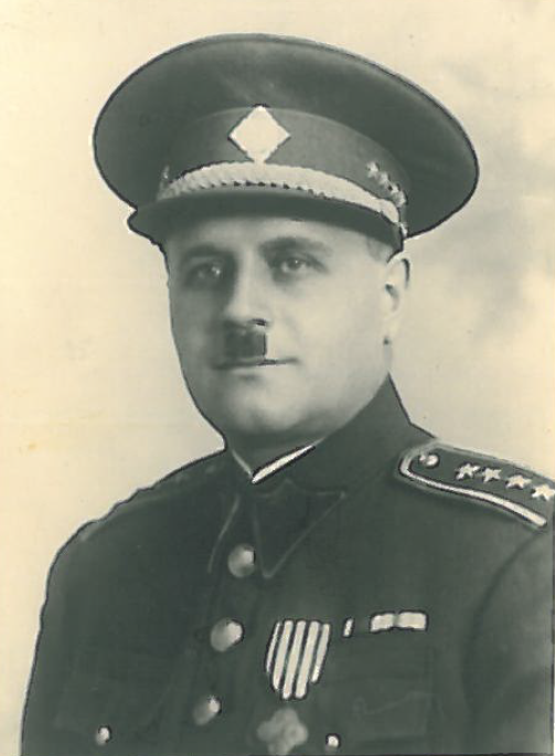 Colonel František Hroník